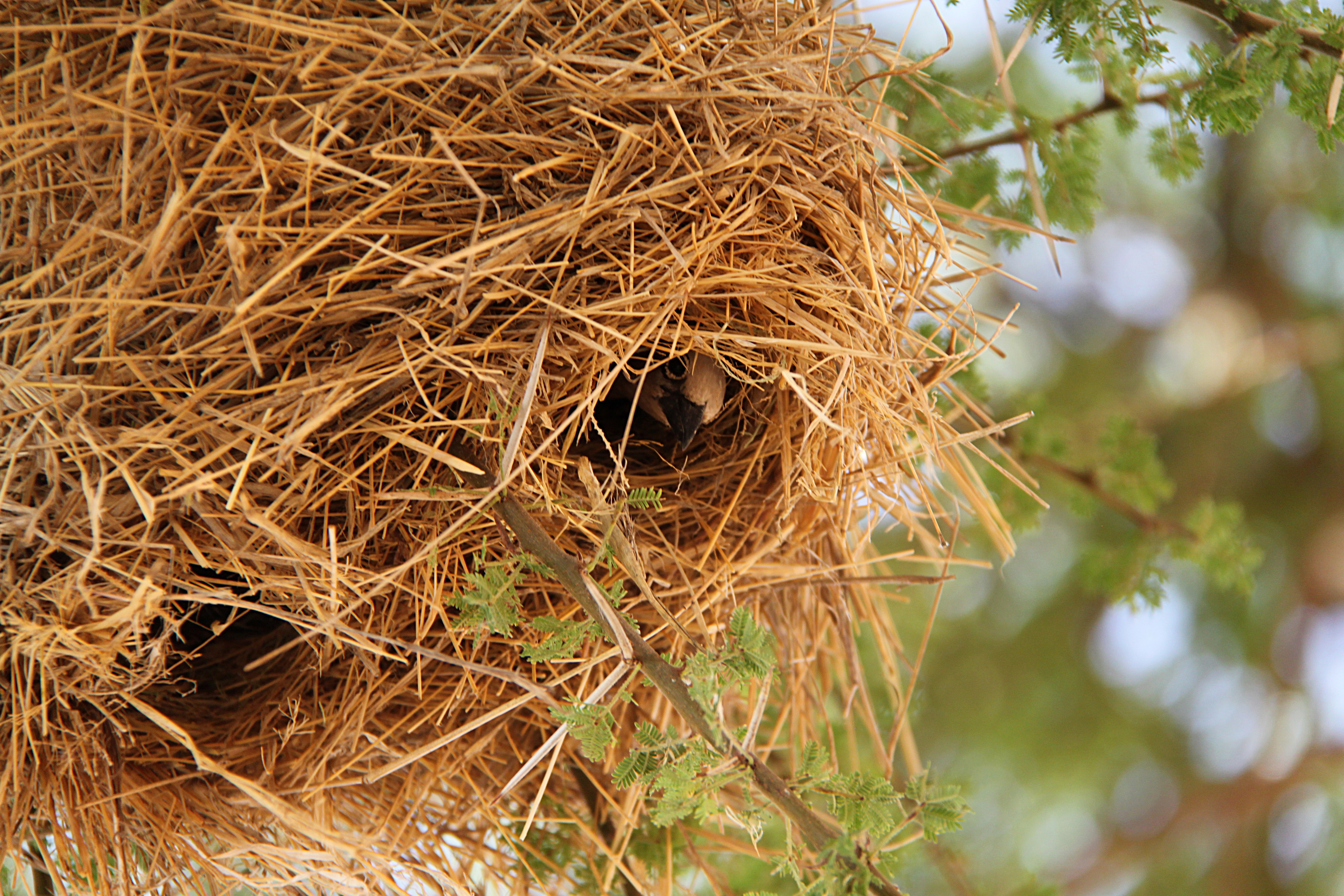 A grey-capped social weaver, Pseudonigrita arnaudi, photographed at Amboseli Iremito gate